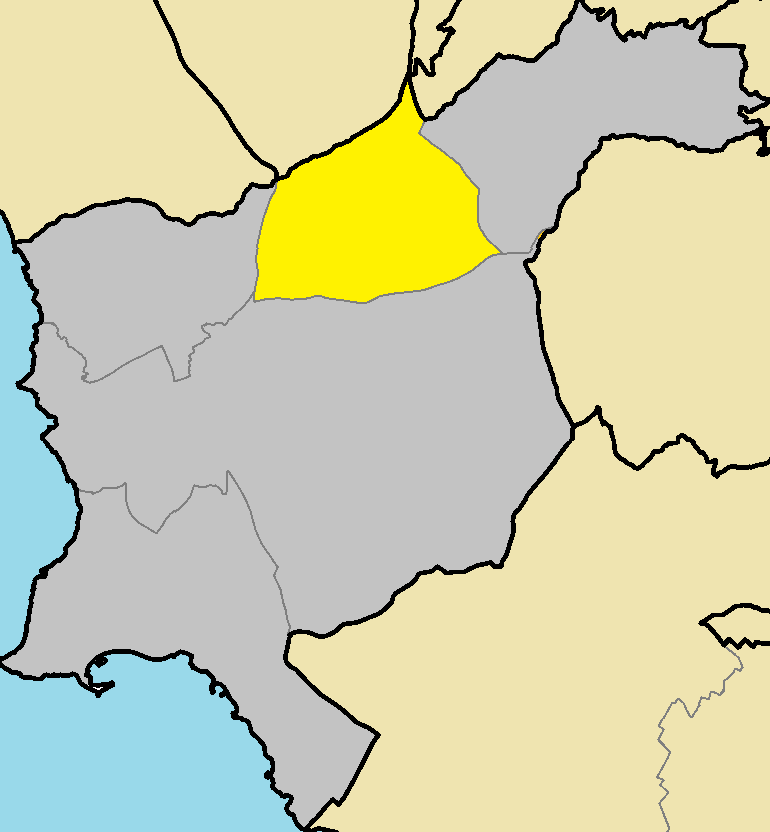 Ayios Pavlos in Paphos Municipality.